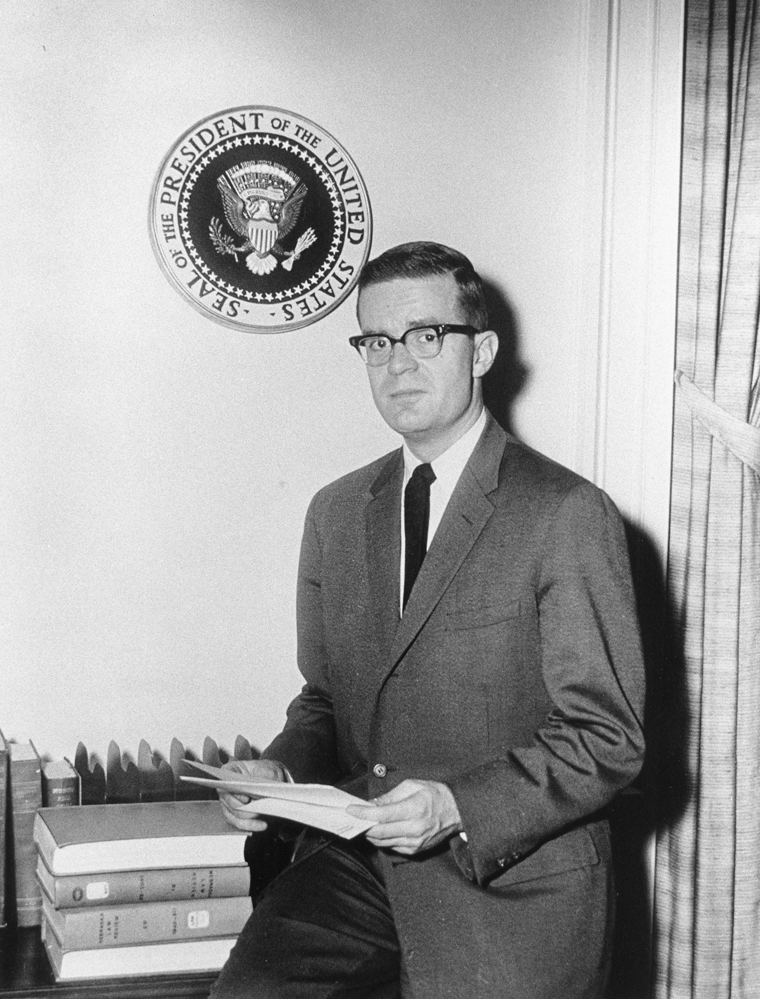 Theodore C. Sorensen, Special Counsel to U.S. President John F. Kennedy.